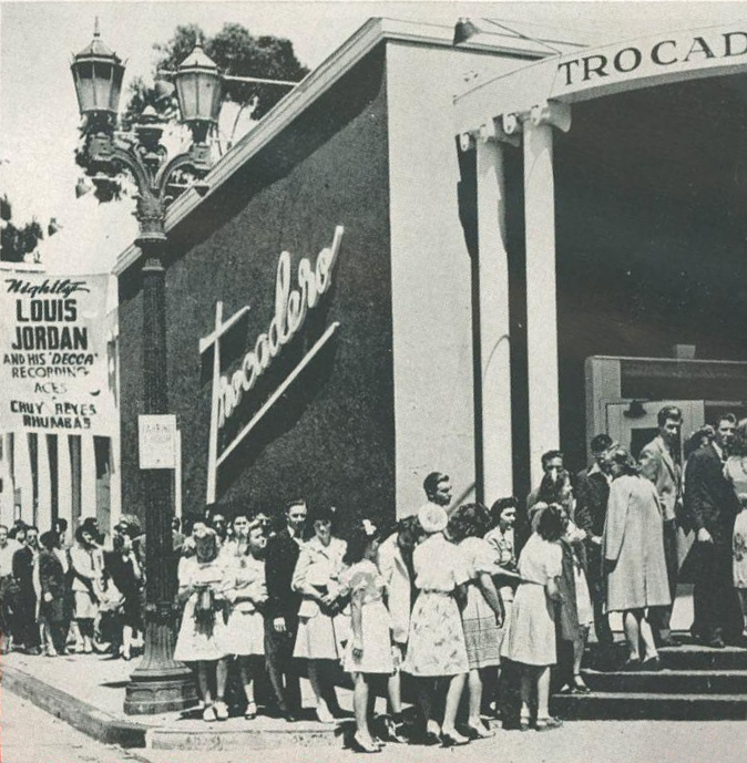 Fans waiting outside the Trocadero in Los Angeles, California for a Louis Jordan concert.